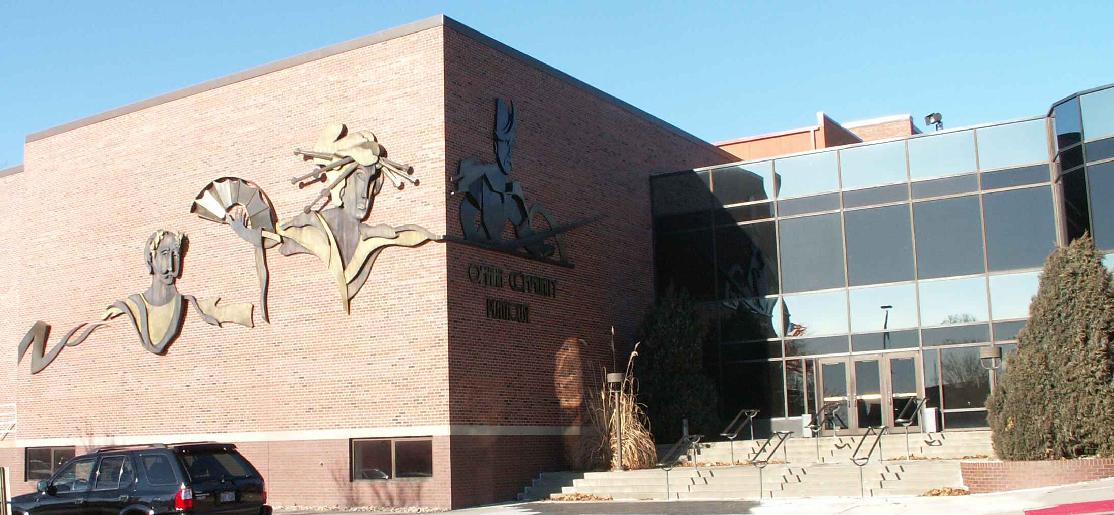 Omaha Community Playhouse. Photo by poster in December 2006.